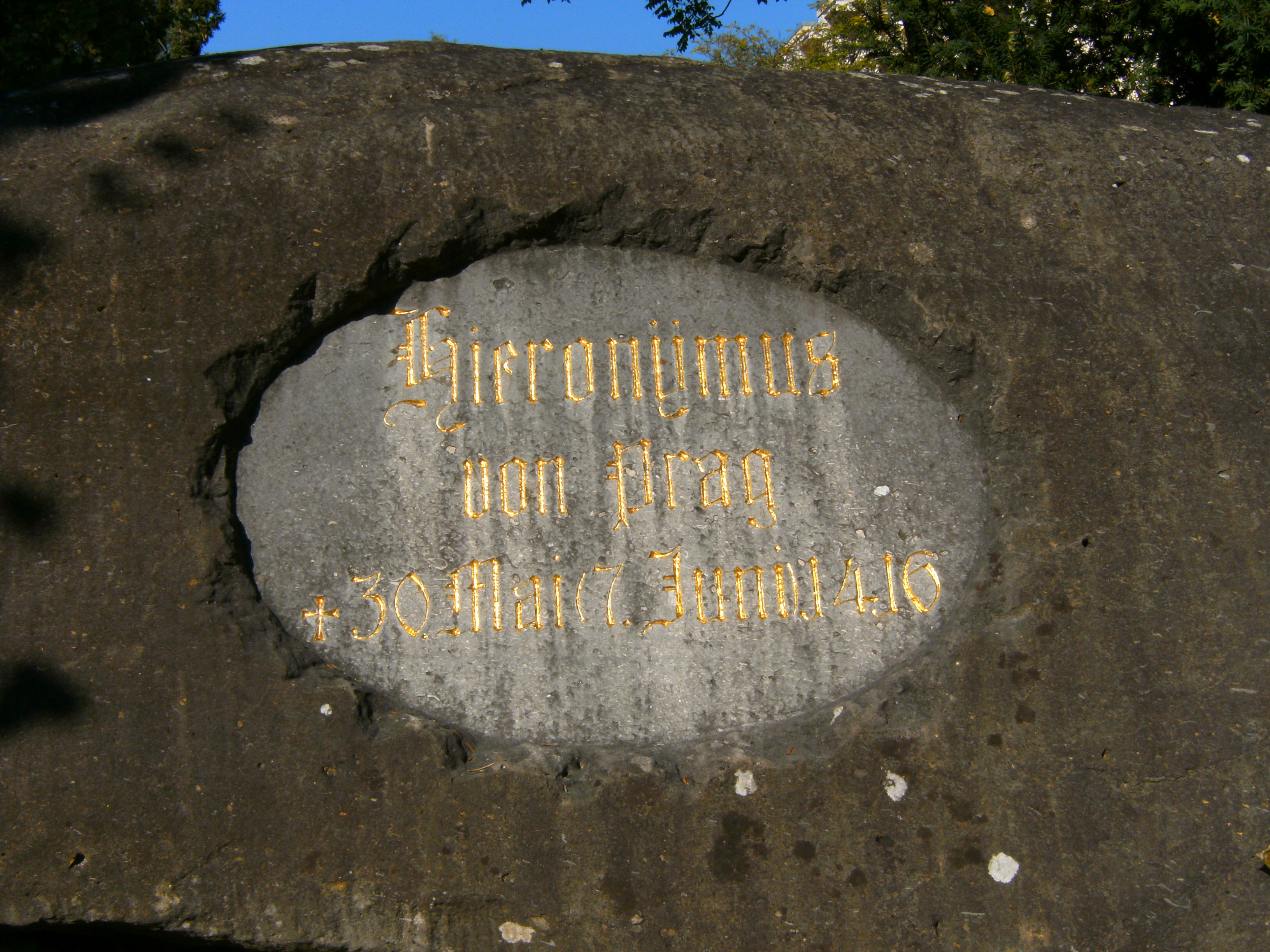 Hussenstein Konstanz in the year 2015: Reverse side to remember the death of Hieronymus von Prag.